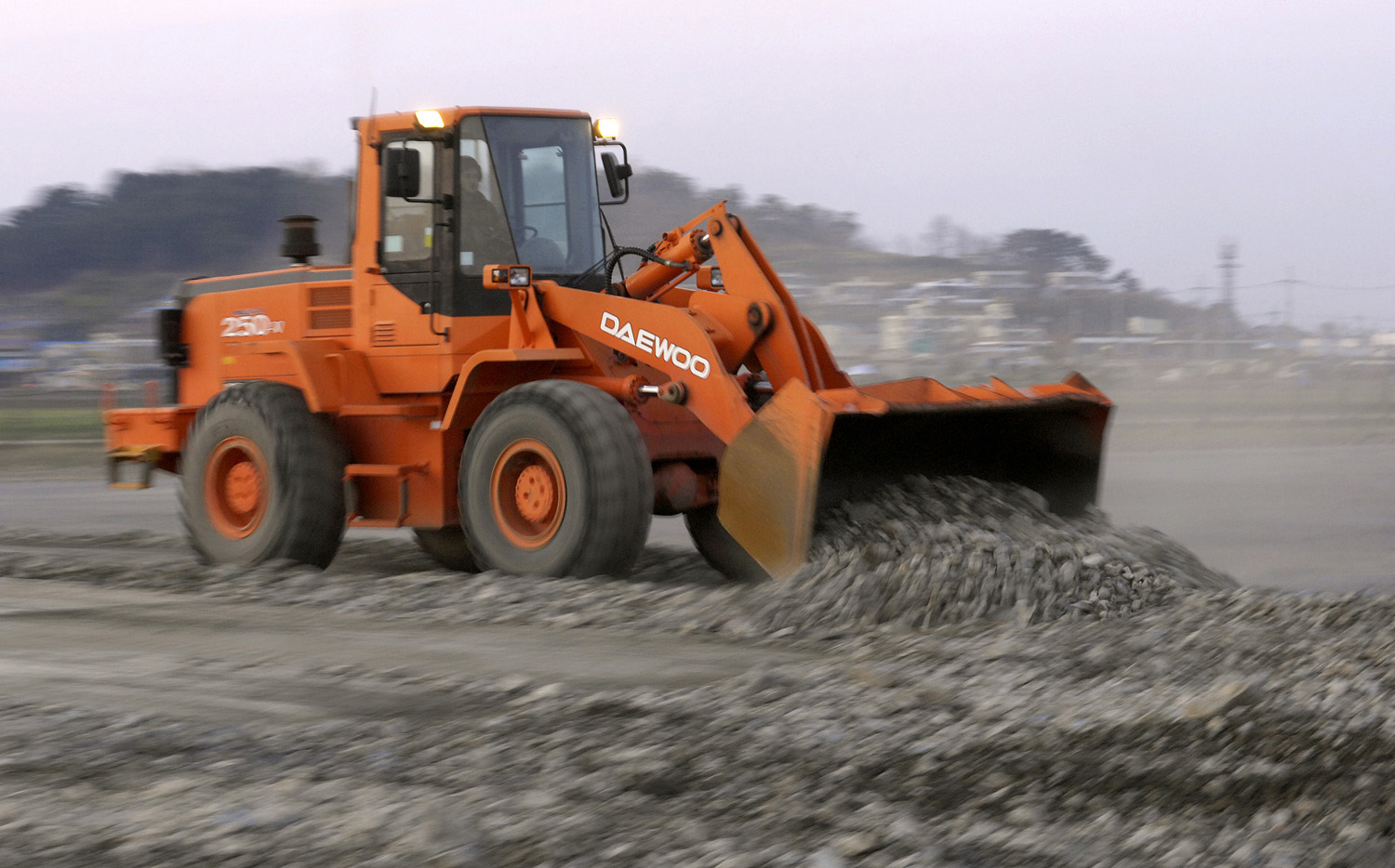 A U.S. Air Force Airmen with the 8th Civil Engineer Squadron's airfield damage repair team clears debris from the runway surface during an operational readiness inspection at Kunsan Air Base, South Korea, April 19, 2007. The vehicle is a DAEWOO Wheel Loader MEGA 250 with an operating Weight of 13,800kg, a bucket capacity of 2.4cbm and an engine power of 158hp.